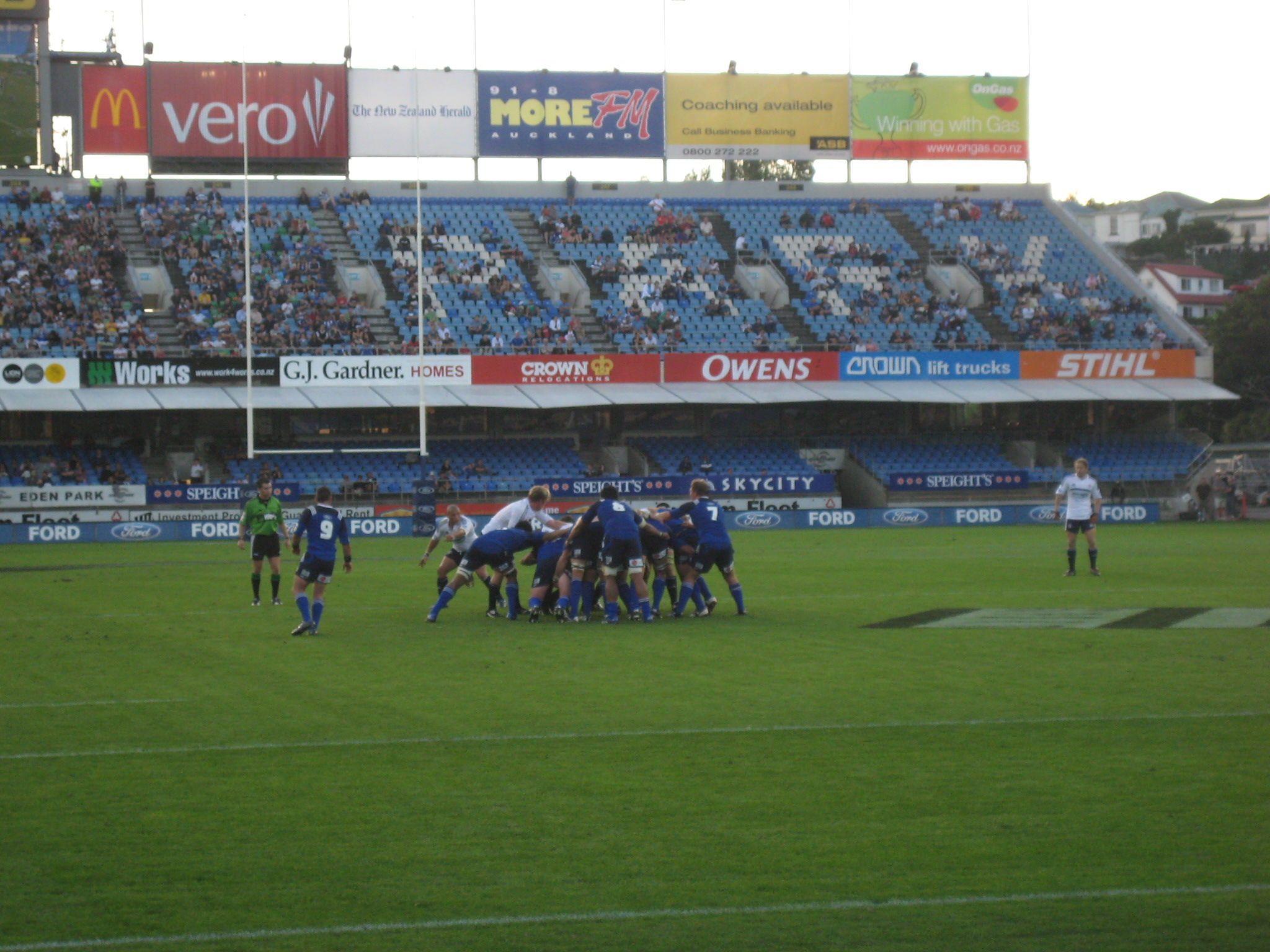 Blues vs Crusaders March 22nd 2008 in Eden Park (Auckland, NZ)